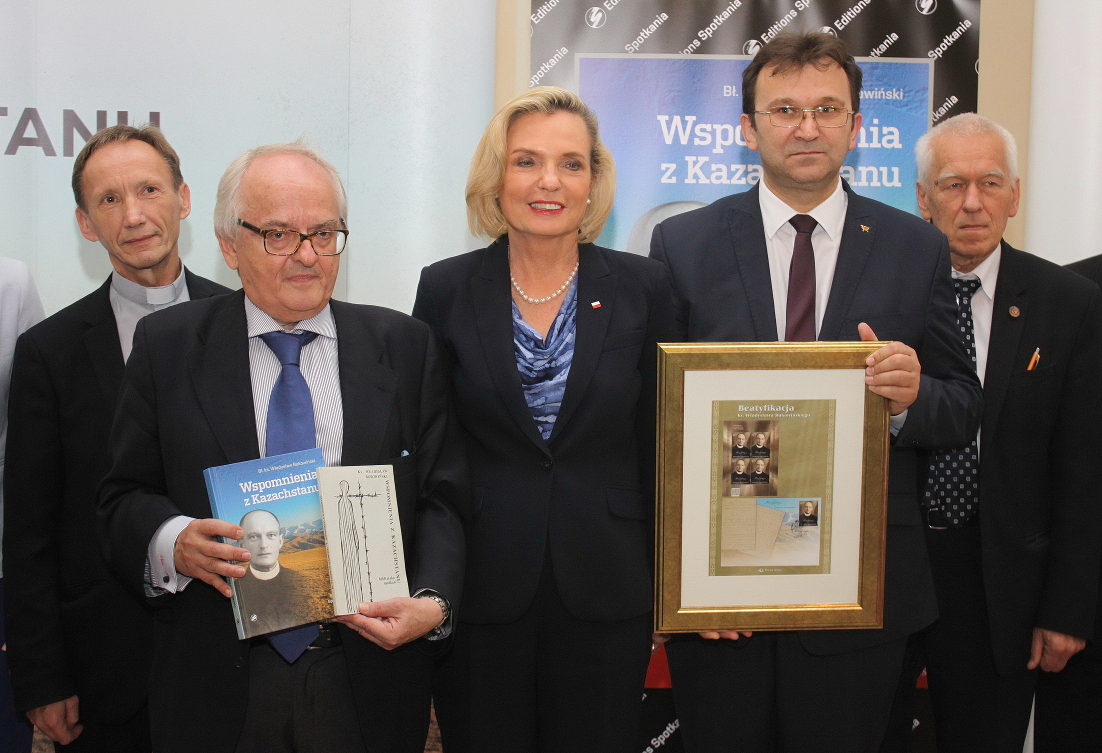 Promotional of the book "Wspomnienia z Kazachstanu" in Warsaw (2016).